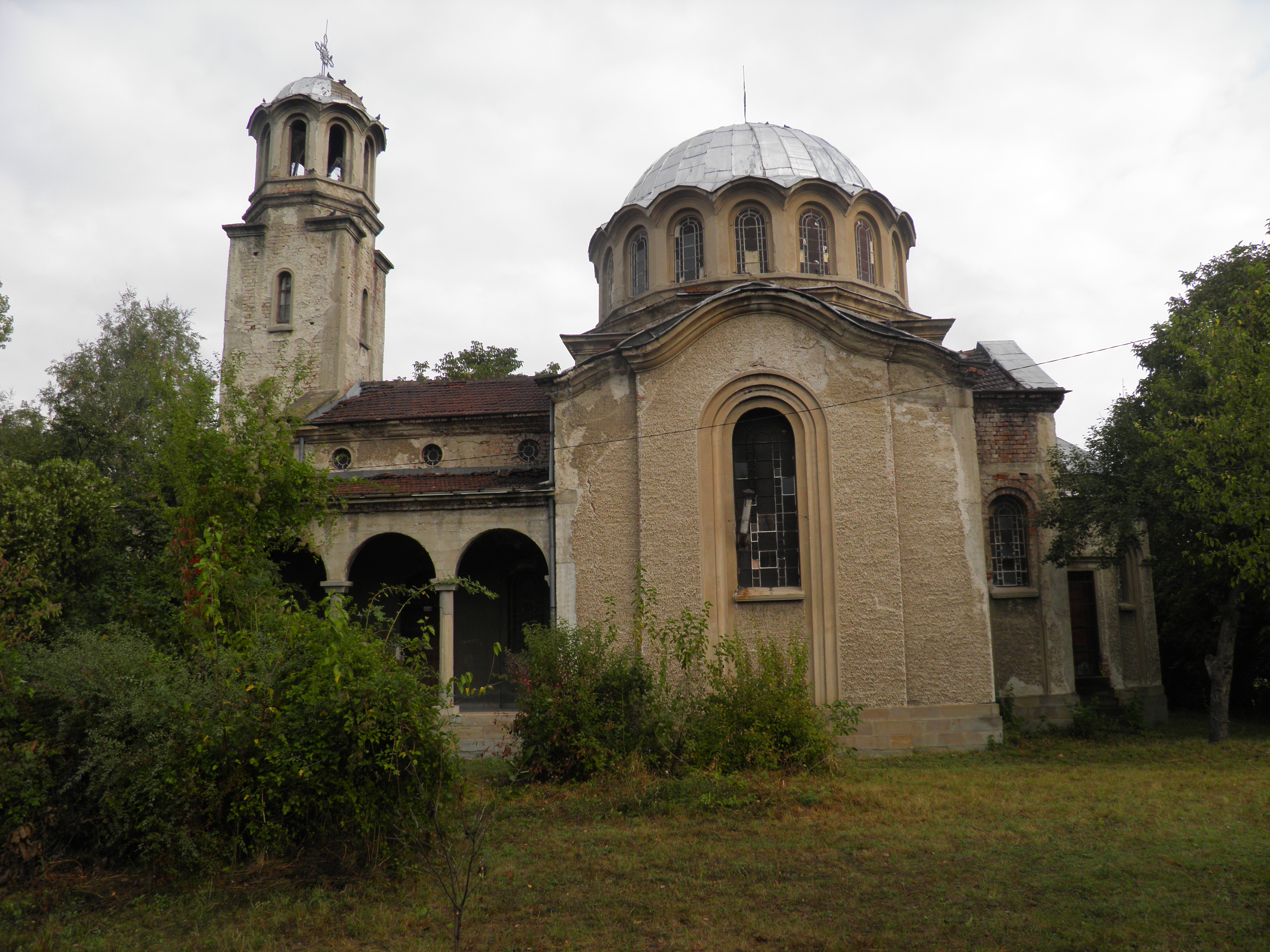 Church Sain Joan Rilski,Kaltinets,Gorna Oryahovitsa